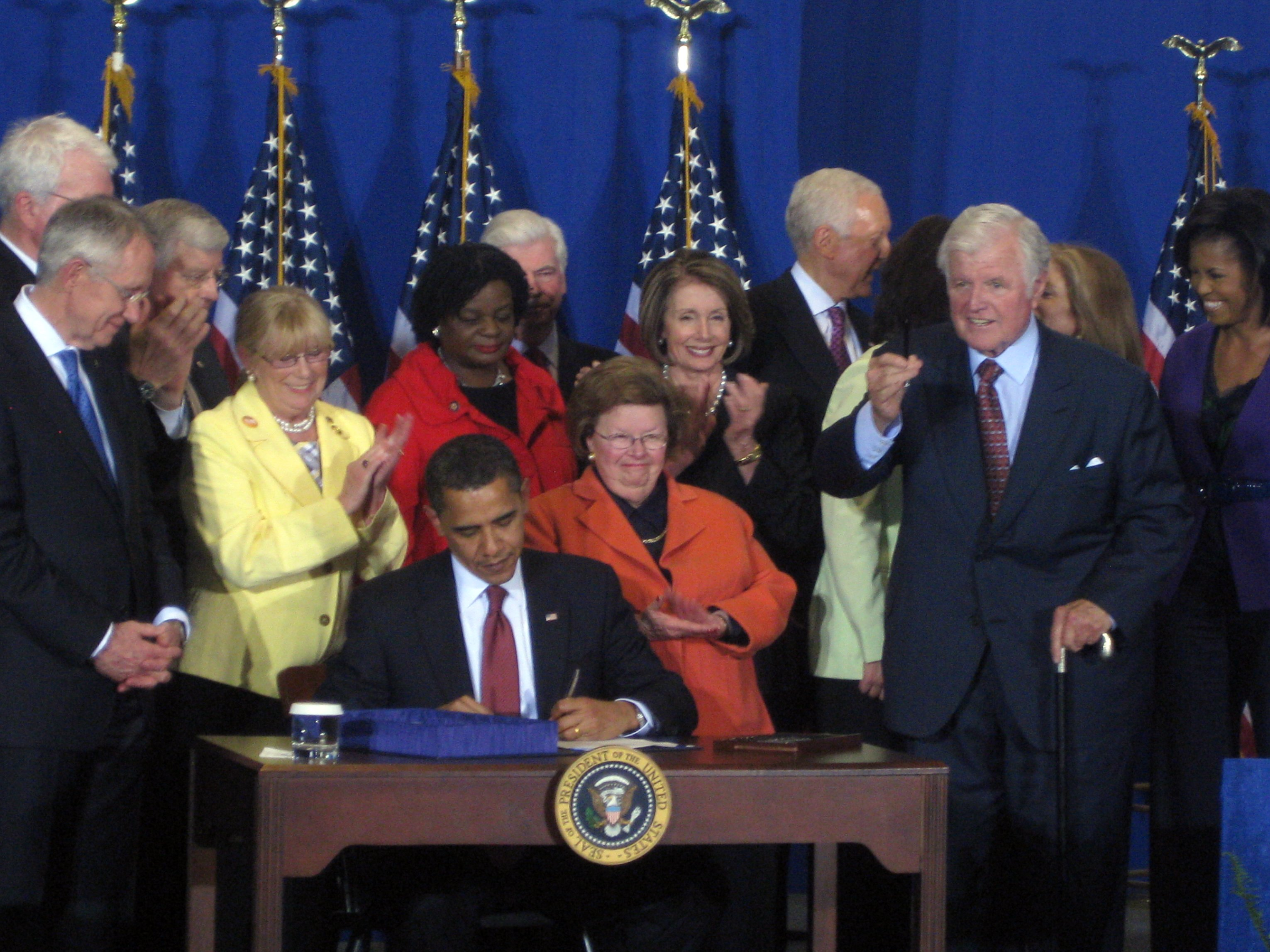 On April 21st, President Obama signed into law the Edward M. Kennedy Serve America Act. Read Speaker Pelosi's remarks here